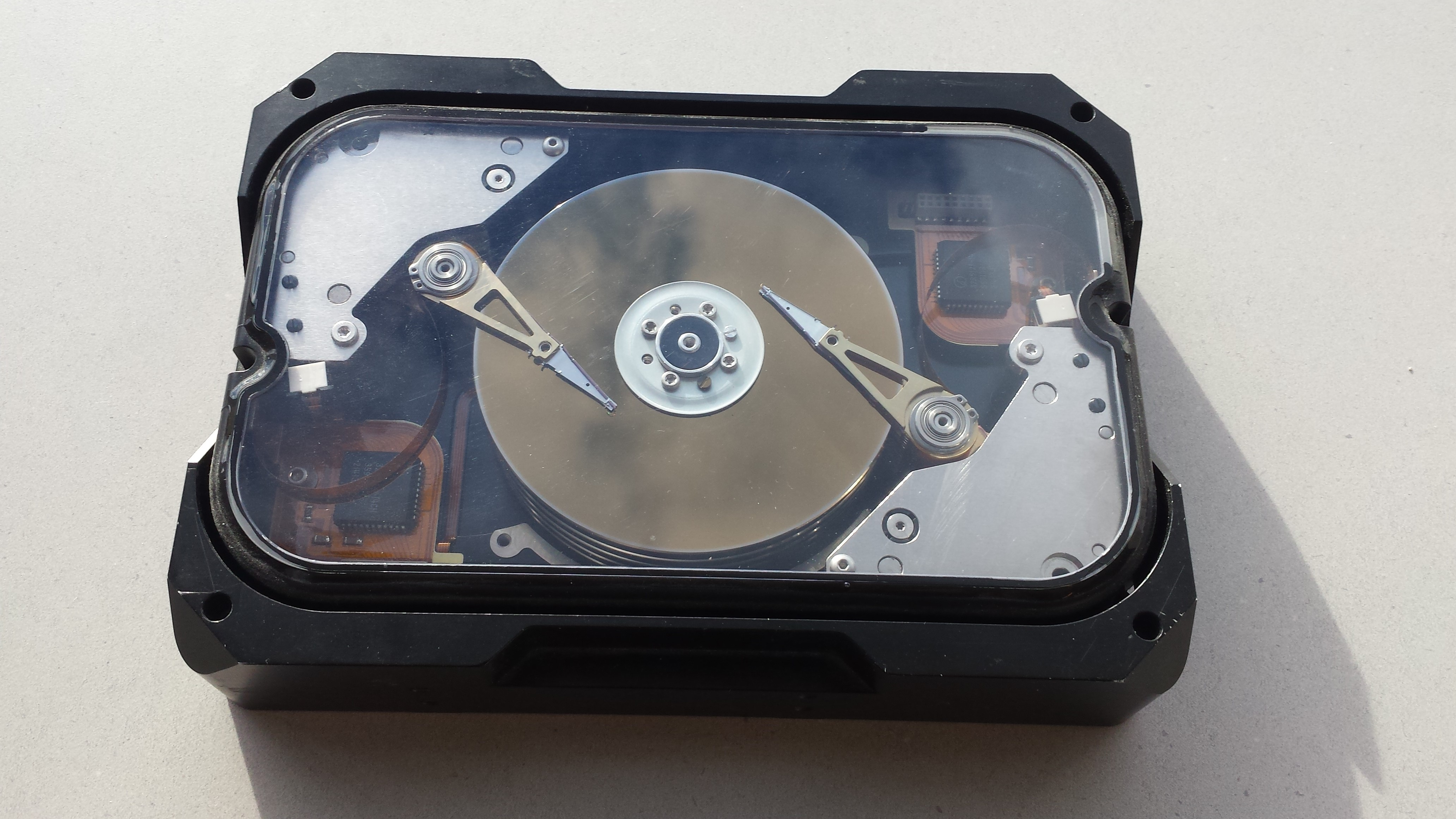 Photo of a Conner Peripherals "Chinook" dual-actuator drive with a clear top cover allowing viewing of the internal mechanics. Top covers are used for display units only.